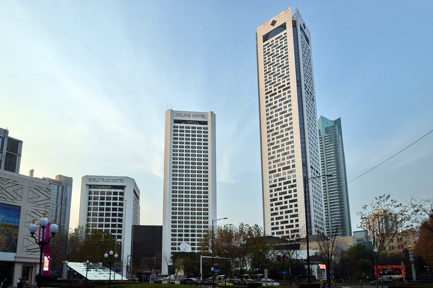 Jinling Hotel (from left: Jinling Hotel World Trade Centre, Jinling Hotel Main Building, Jinling Hotel Asia Pacific Tower), Xinjiekou, Nanjing (architect: P&T)